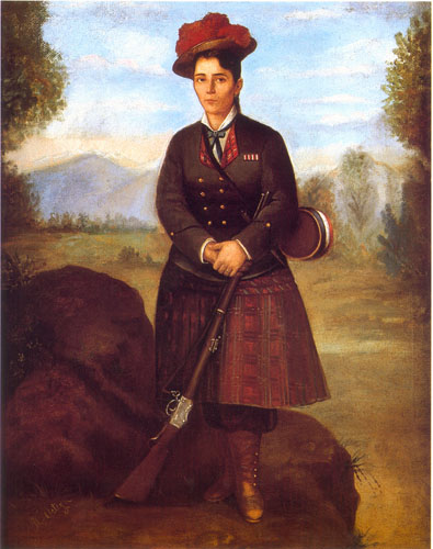 Painting of Chilean cantiniere Irene Morales. Ortega presented the painting to her, and it was donated to the museum in 1933.